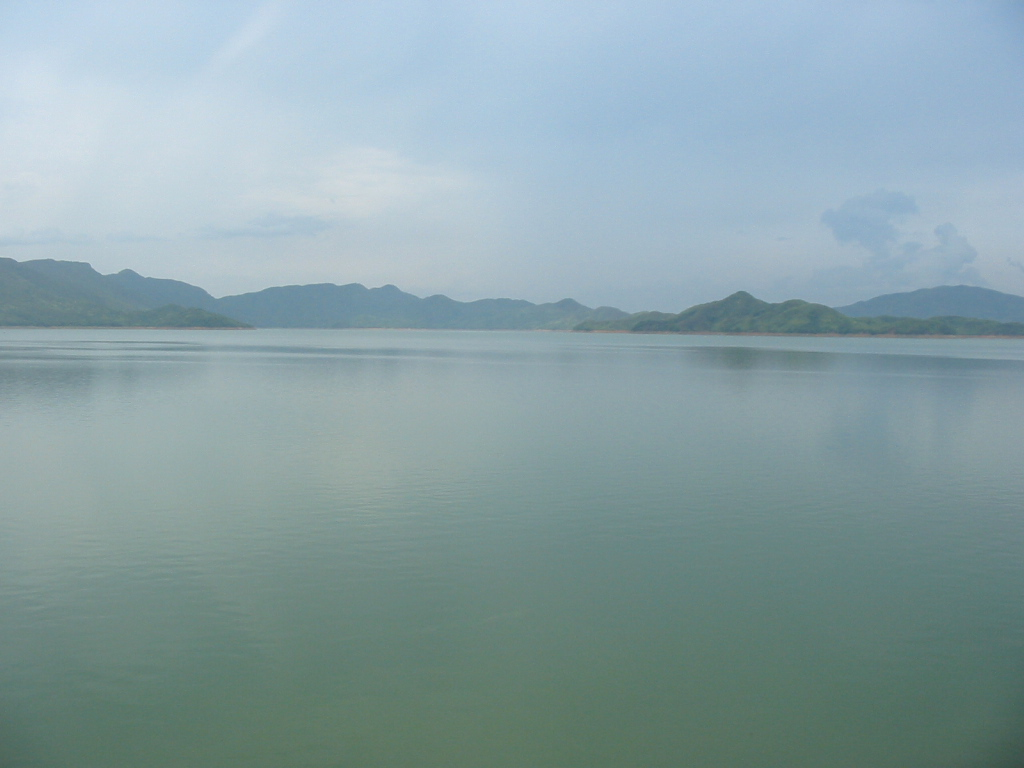 Plover Cove Reservoir as seen from its dam